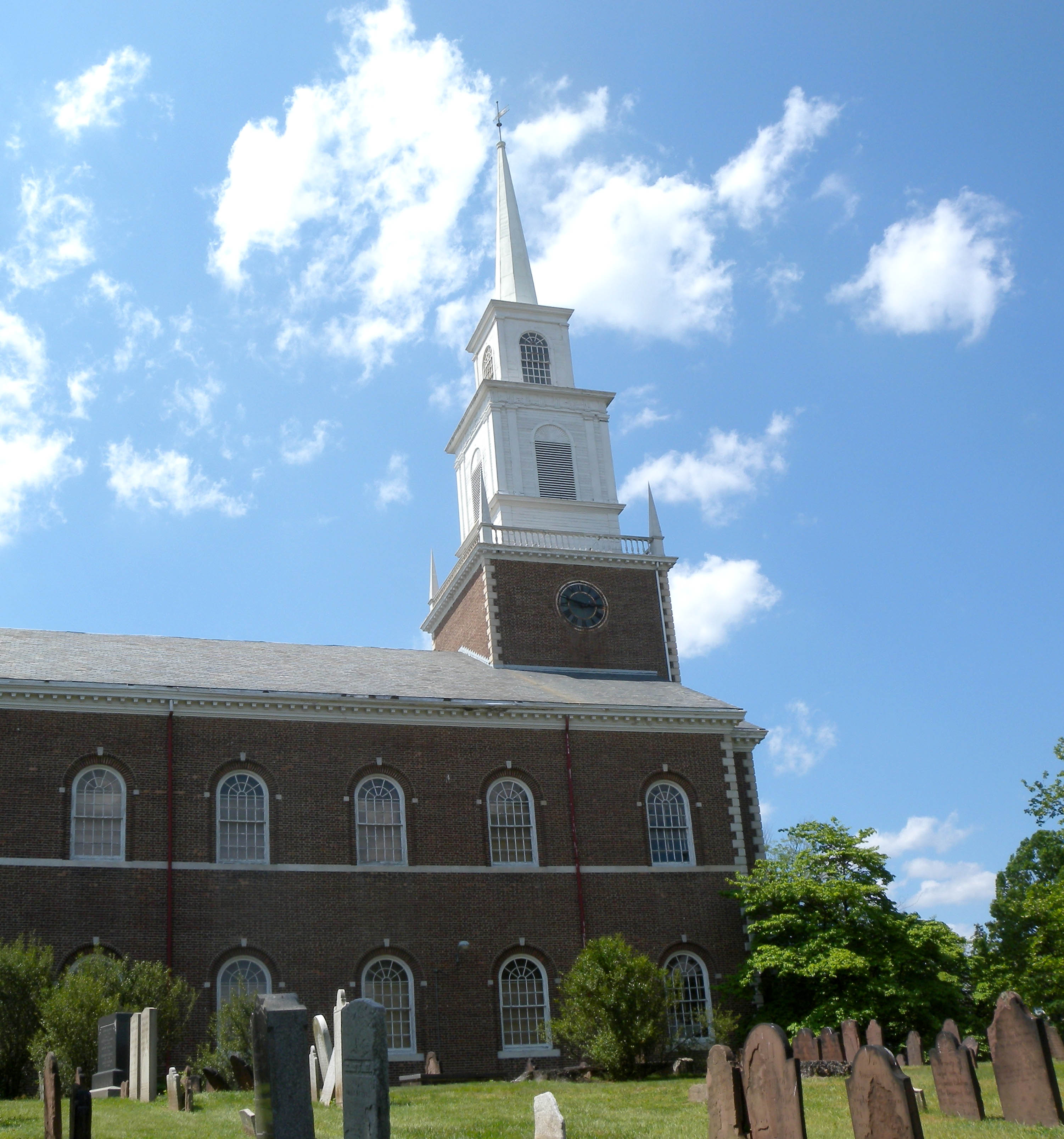 Looking northwest at First Church of Orange, Presbyterian (1719) on a mostly sunny midday.